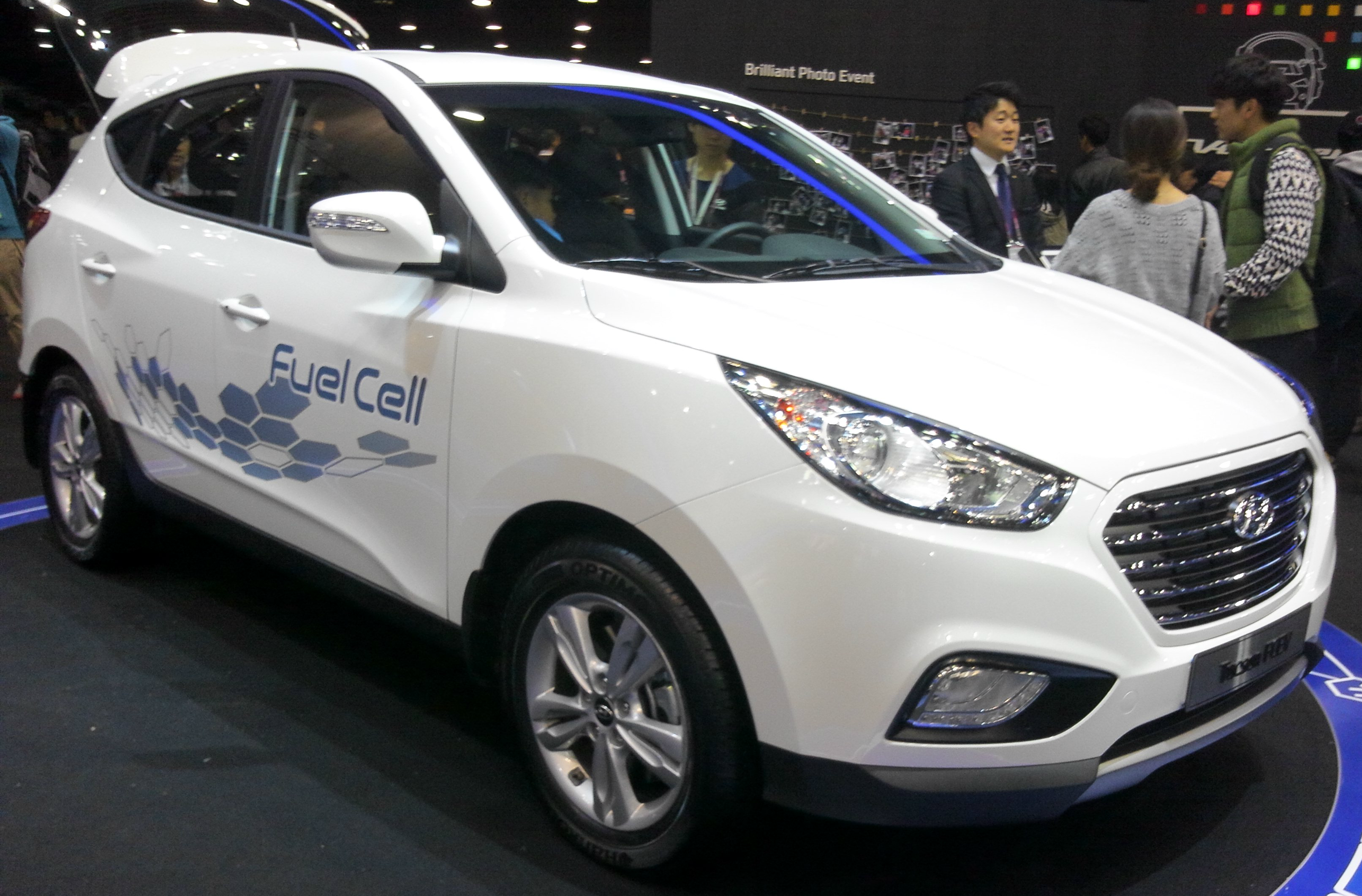 Front-right side of Hyundai ix35 Fuel Cell.